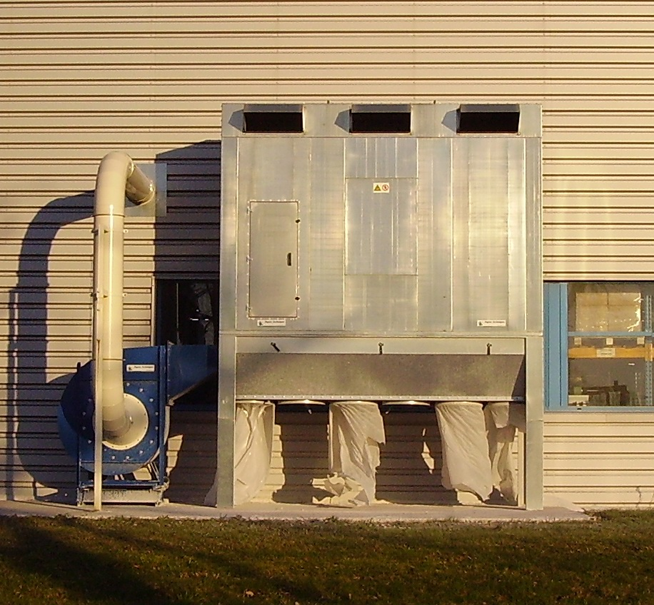 Cyclone separator.